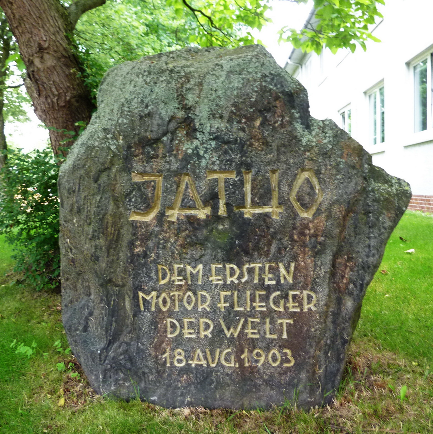 Memorial stone Jatho, Airport Hannover